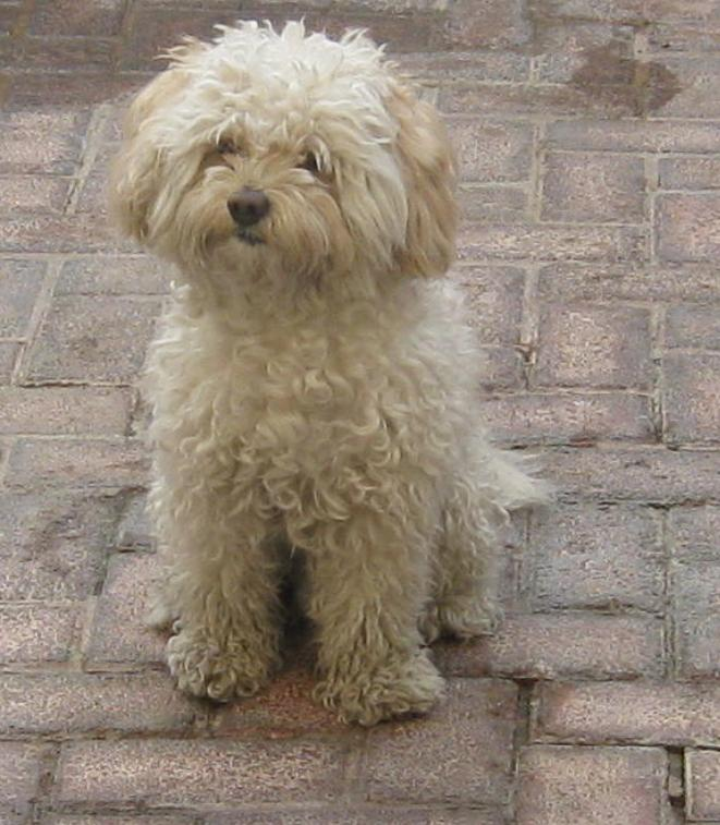 bani a bichon